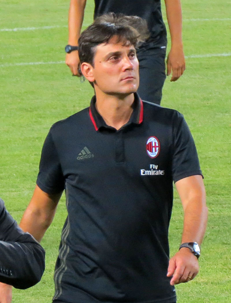 Vincenzo Montella, Bayern Munich v AC Milan, International Champions Cup 2016.